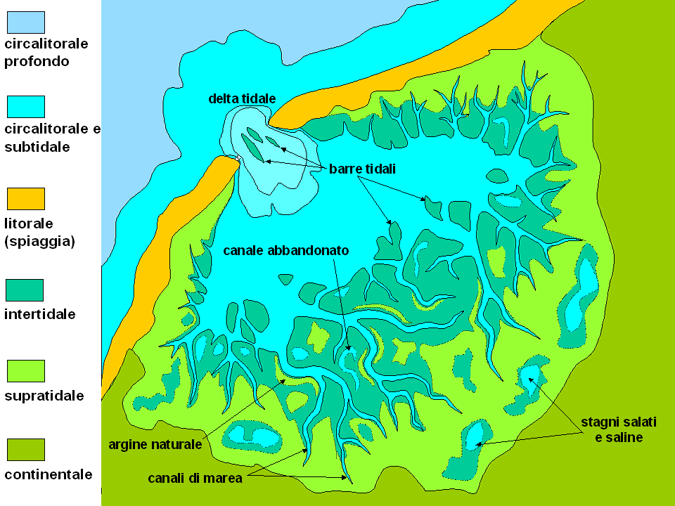 Generalized sketch map of a tidal flat sedimentary environment. Text in Italian.